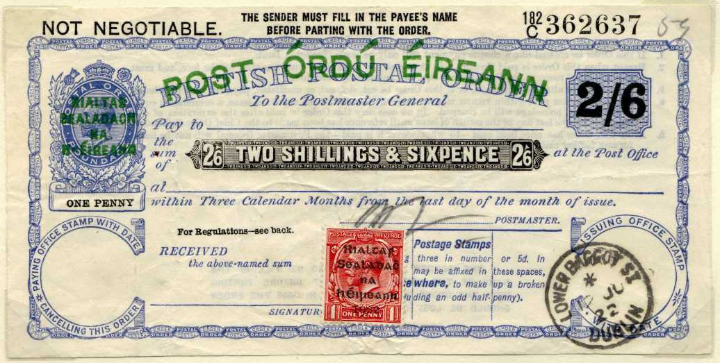 Postal Order of the Provisional Government of Ireland being a British Postal Order overprinted in 1922 with additional 1d Provisional Government of Ireland overprinted stamp affixed by Lower Baggot Street Post Office, Dublin